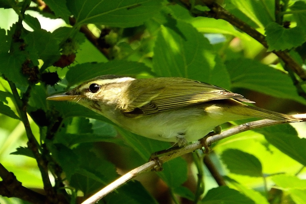 Eastern Crowned Warbler (Phylloscopus coronatus), Taipei, Taiwan